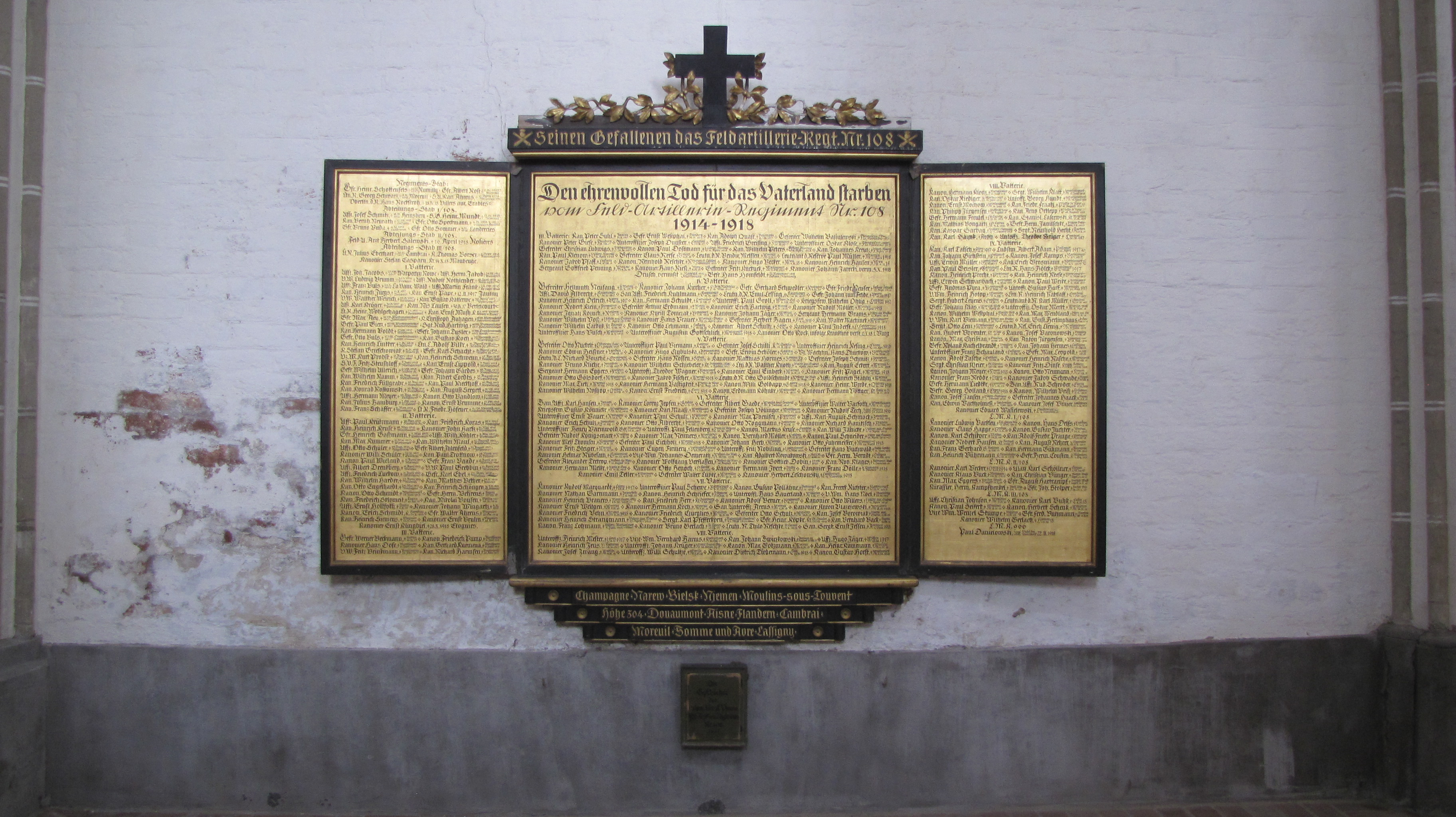 Memorial honoring the WWI dead of the Feldartillerieregiment 108, Schwerin cathedral